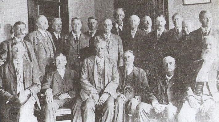 The first US Deputy Marshals sworn into duty in 1897 for service in the Northern District of the Indian Territory (Oklahoma). From left to right, standing: Gus Bubus, Bud Ledbetter, Steve Tillie, Sid Johnson, Mark Moore, John Jones, John West, Dave Adams, Bill Smith, W. F. (Frank) Jones, Mr. Brazell, Joe Hubbard, and Crockett Lee. Sitting: Mr. Webb, Mr. Ingram, Grant Johnson, Mr. Tyson, Mr. O'Brien, and Mr. Lacy.